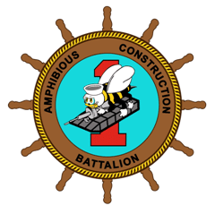 ACB-1 emblem